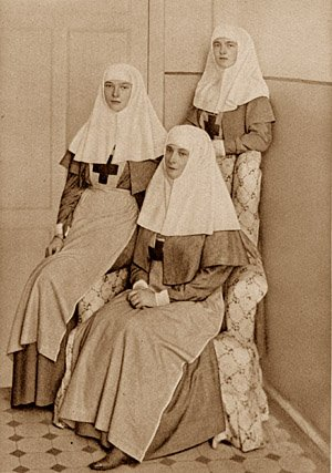 Russian Sisters Romanovs of Charity